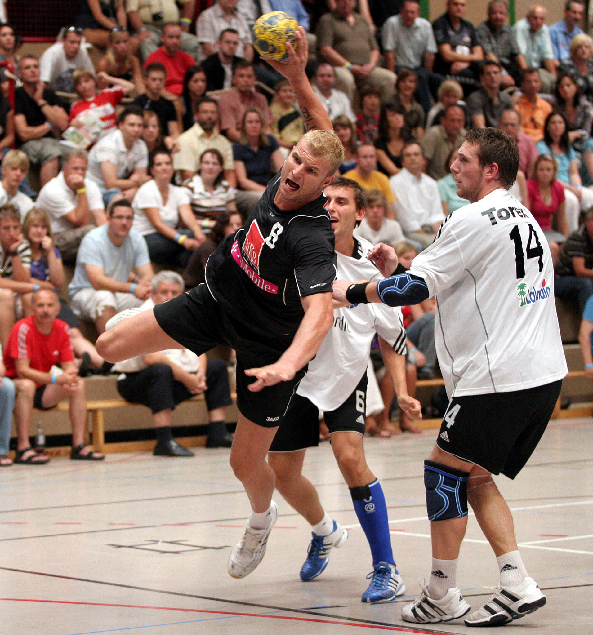 Marian Cozma, handball player from romania, during the Schlecker Cup 2008 in Ehingen (Germany)